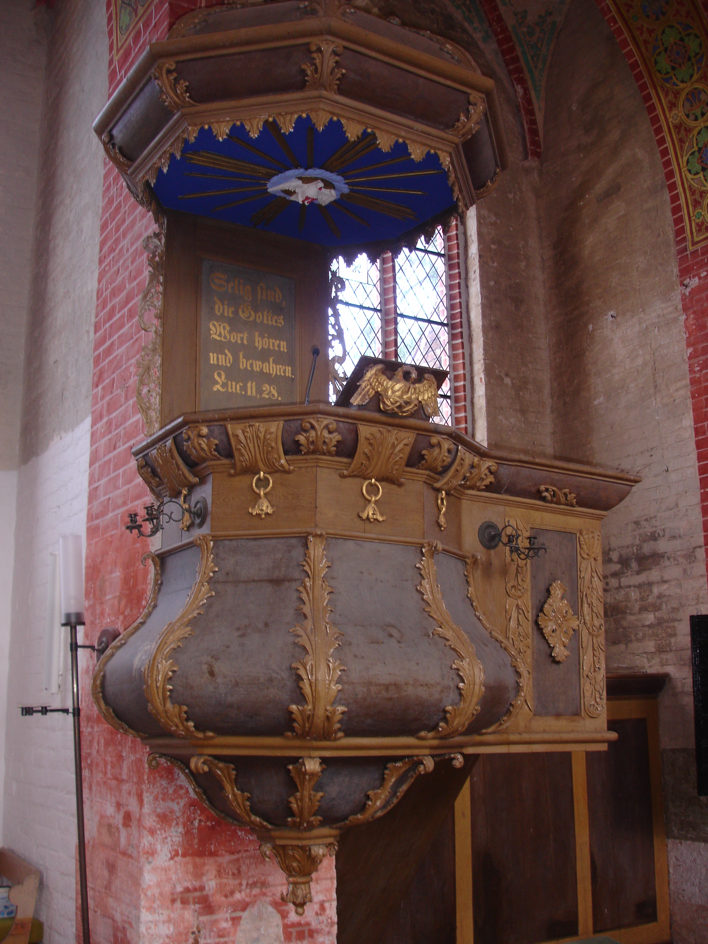 Church in Hohenkirchen, district Nordwestmecklenburg, Mecklenburg-Vorpommern, Germany